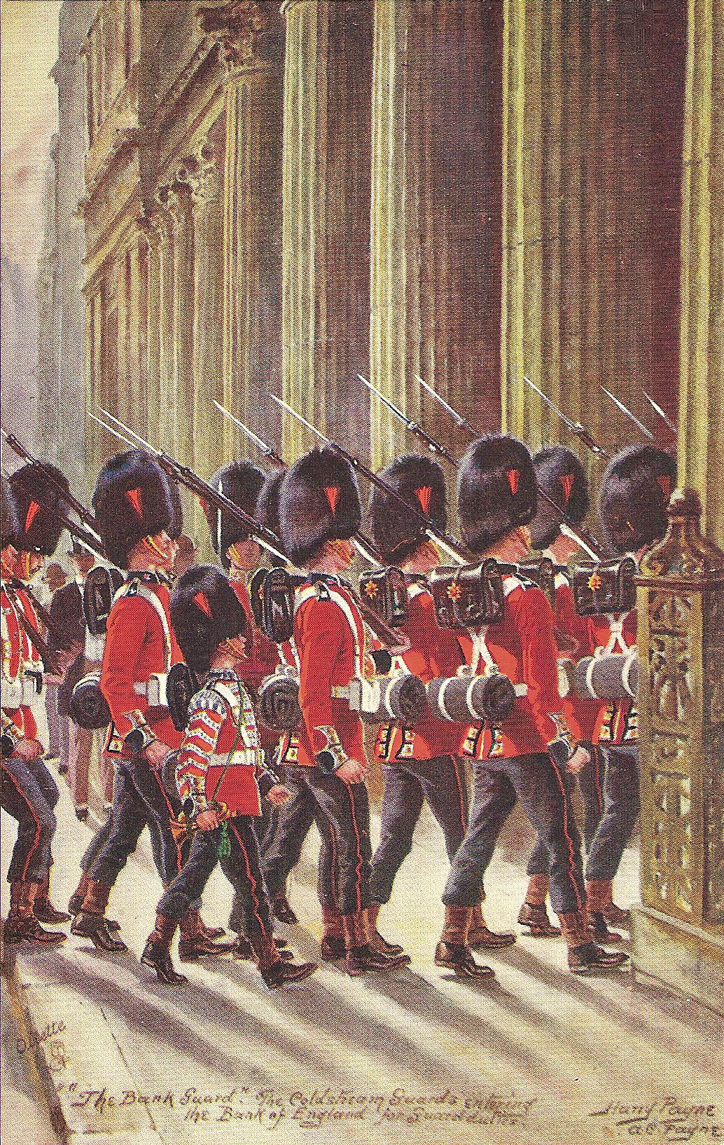 A Tuck's Oilette by Harry Payne dating from 1906 showing the Bank of England Picquet or Guard entering the Old Lady of Threadneedle Street, in this case they are from the Coldstream Guards. The foot guards had been employed for this duty since 1780 after the Gordon Riots, during which many London buildings were damaged or destroyed; the Bank was extensively damaged during the riots. The duty consisted of an overnight shift of thirteen hours during which the guard secured the vaults containing the nation's reserve of gold bullion. Up until 1963 the Guard marched from either Wellington or Chelsea barracks to the City and the Bank in full ceremonial uniform. After 1963 they wore service uniform and were transported by lorry. A Grenadier Guards Officer once told me that when he was commanding the Guard at the end of the night he felt sorry for his men who were due to march back to barracks, so he called up the lorry and transported his men as far as Horse Guards Avenue. They then marched back to Wellington barracks where he was met by his commanding officer who had twigged what he had done and was furious, no port in the mess that evening. Due to increased security at the Bank, CCTV etc and the financial cost of the operation, it was decided to end nearly 200 hundred years of tradition and the last Guard took place on the night of 31st July 1973. There is an interesting film which is set at the Bank called "The day they robbed the Bank of England" starring Peter O'Toole as the officer commanding the Guard.